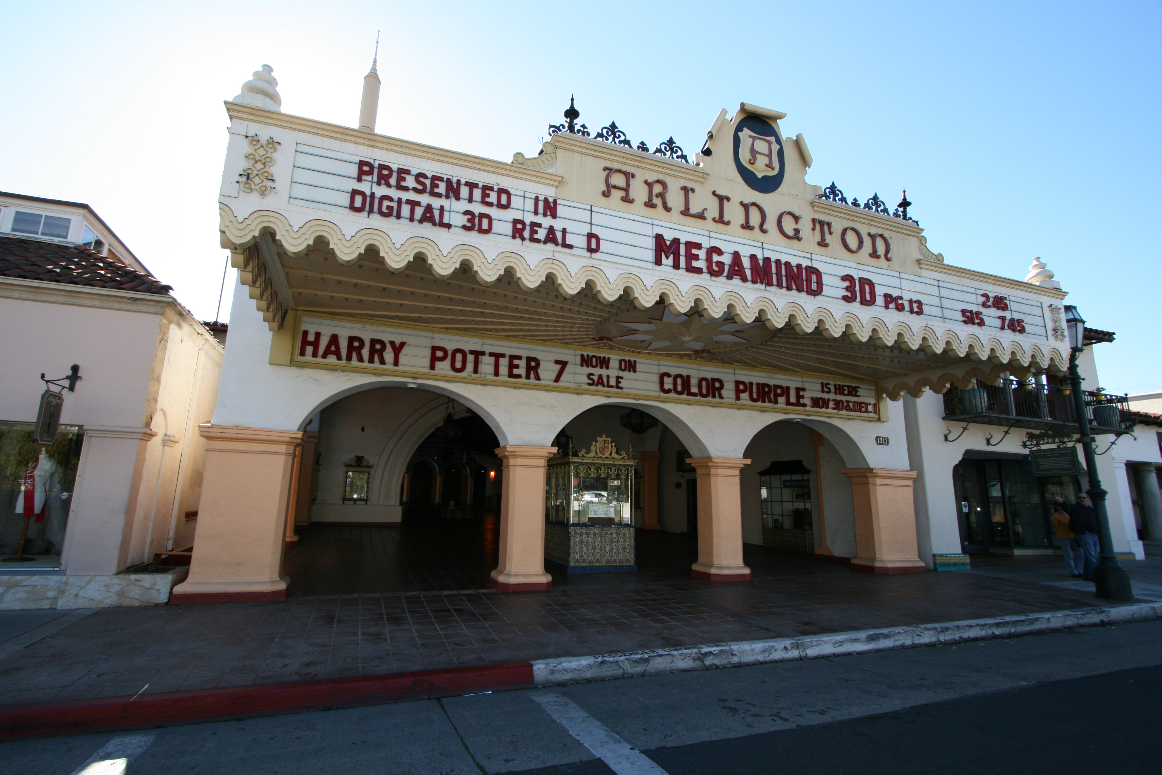 Arlington Theater, Santa Barbara, CA. This is the front of the building. Note the ticket booth in the center.